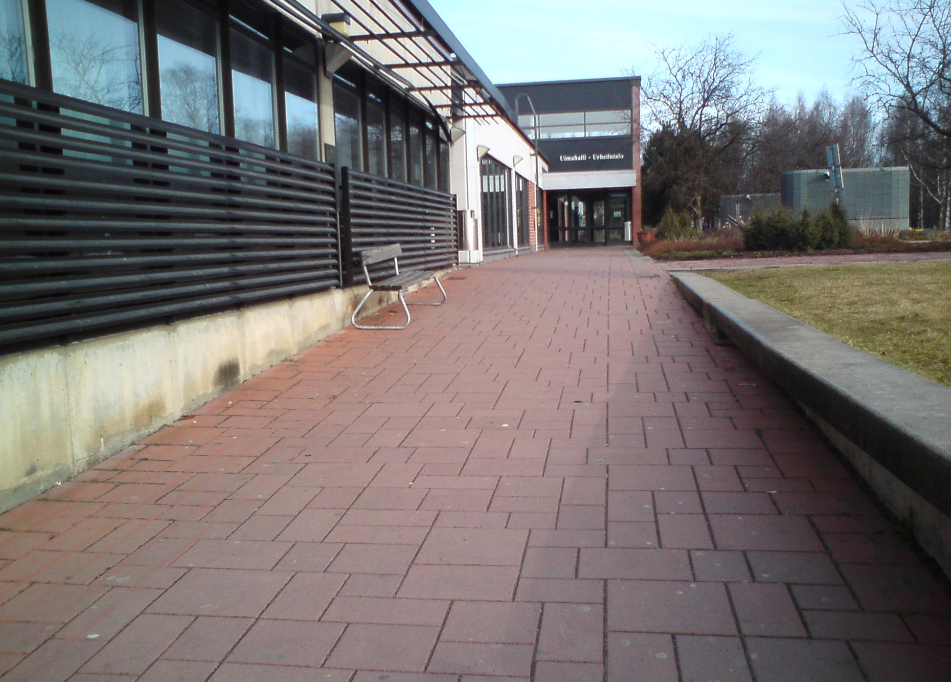 Sportshall and swimming hall in Seinäjoki from the main door.